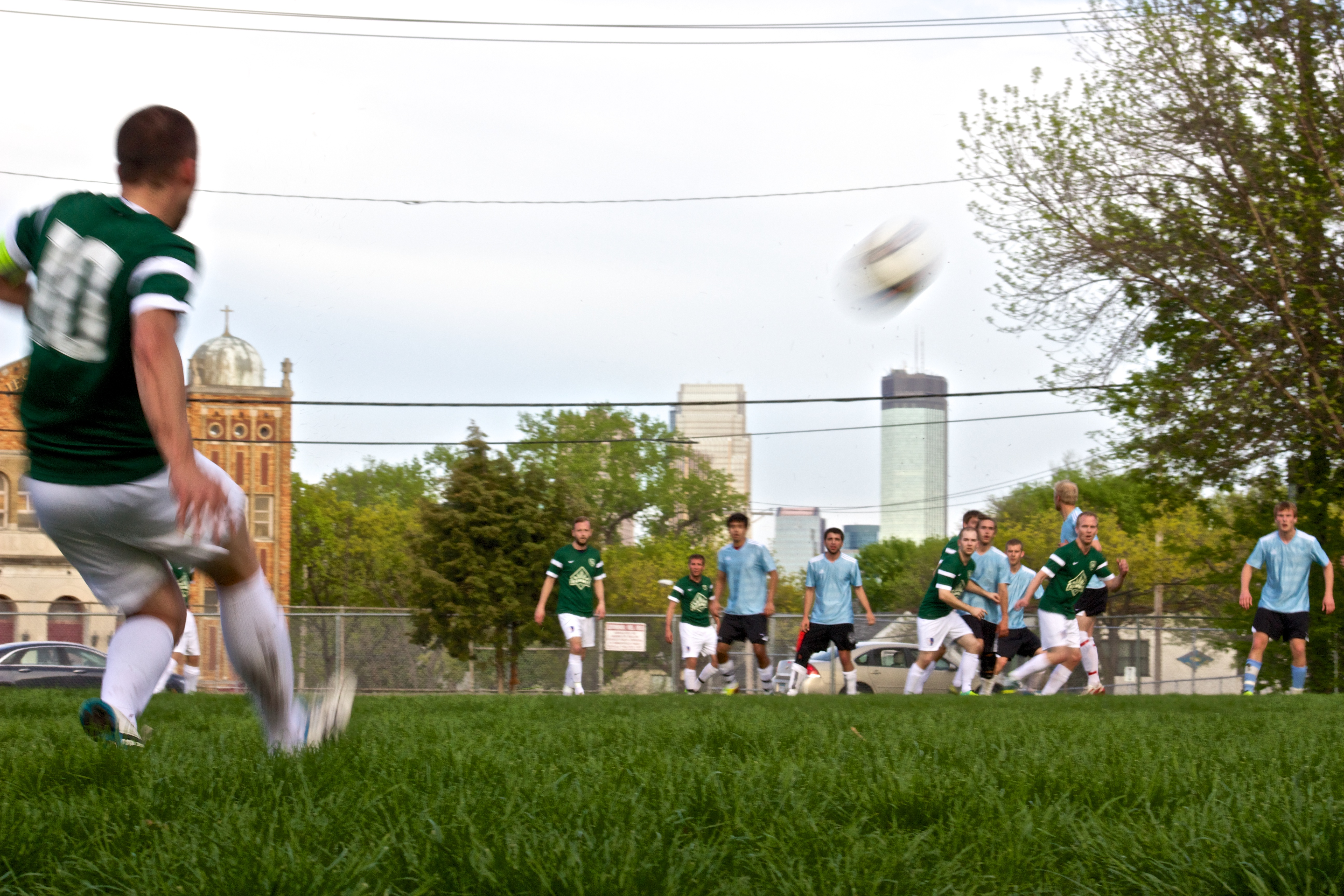 Lincoln Community Field in north Minneapolis, home of Stegman's Soccer Club.